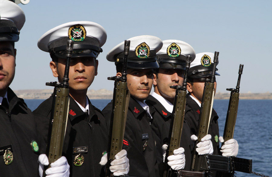 Some IRIN soldiers standing together on Jamaran Frigate.